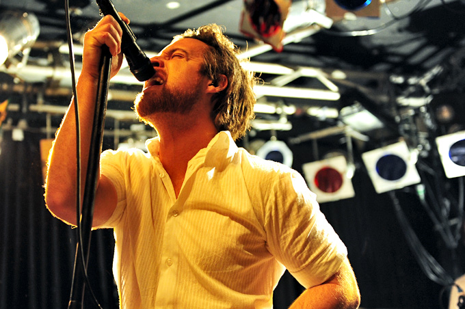 Trial Kennedy @ Amplifier Bar (3/6/2011)